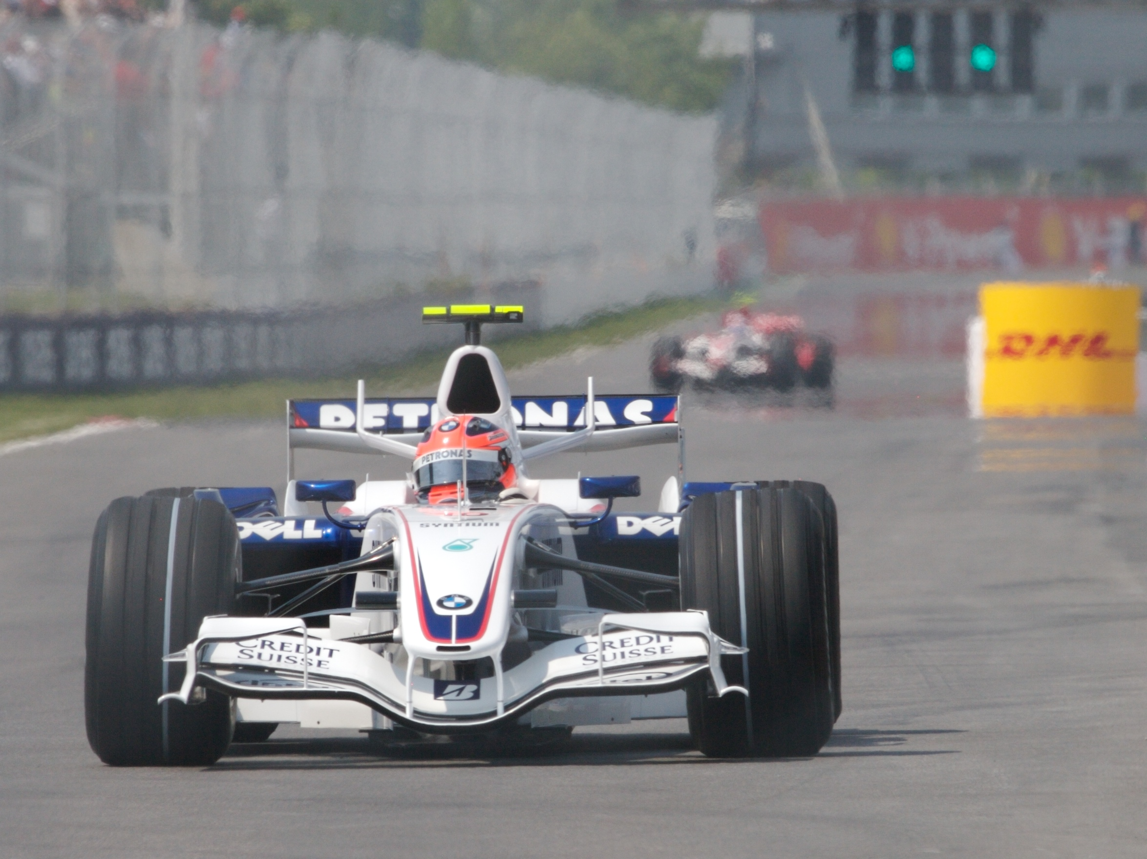 Kubica coming out of the pits in Montreal